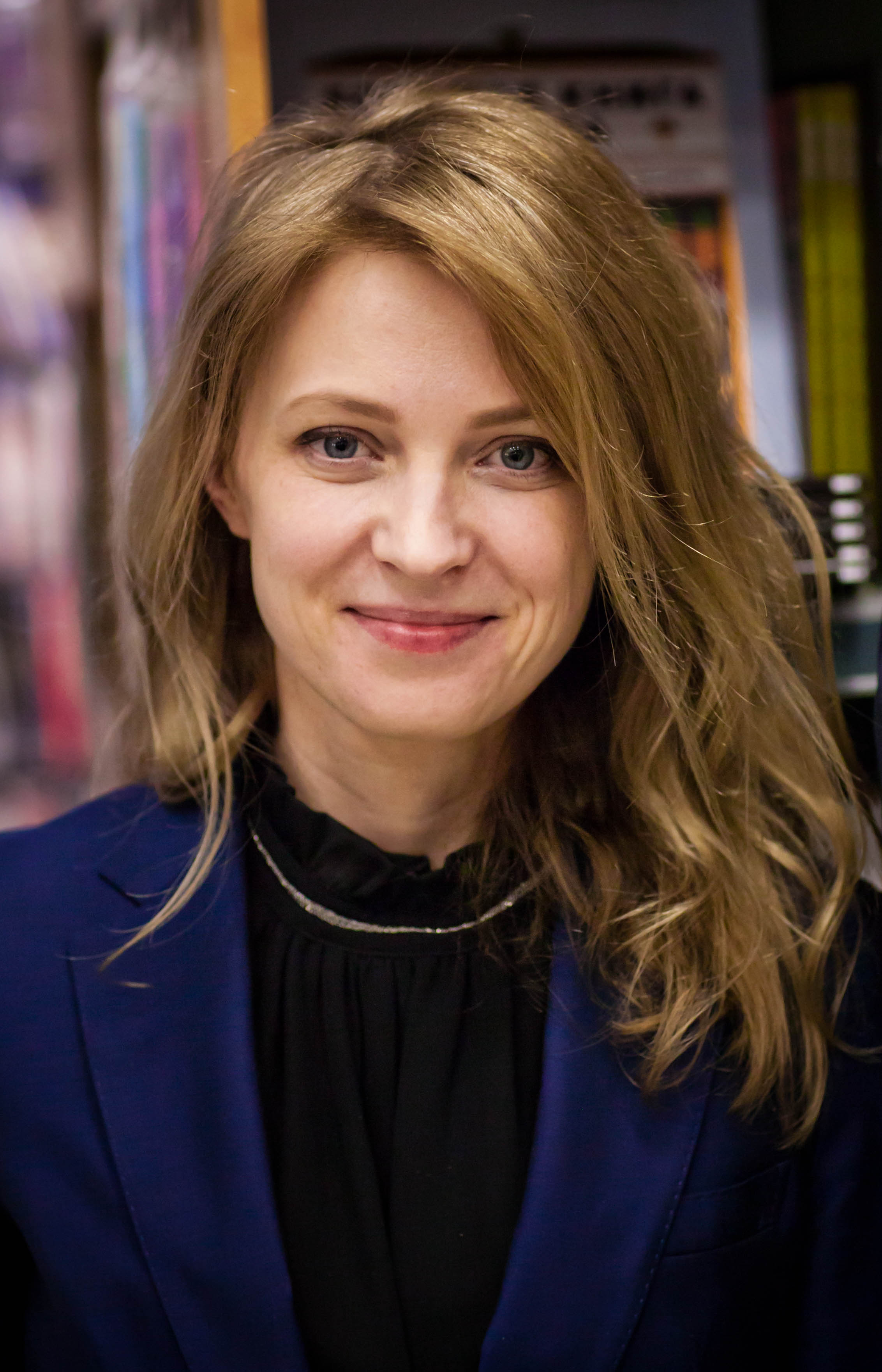 Natalia Poklonskaya. Event: Natalia Poklonskaya and Ivan Solovyov at presentation of the book "Crimea Spring. Before and after. Firsthand stories" at "Molodaya gvardia" bookshop, Moscow